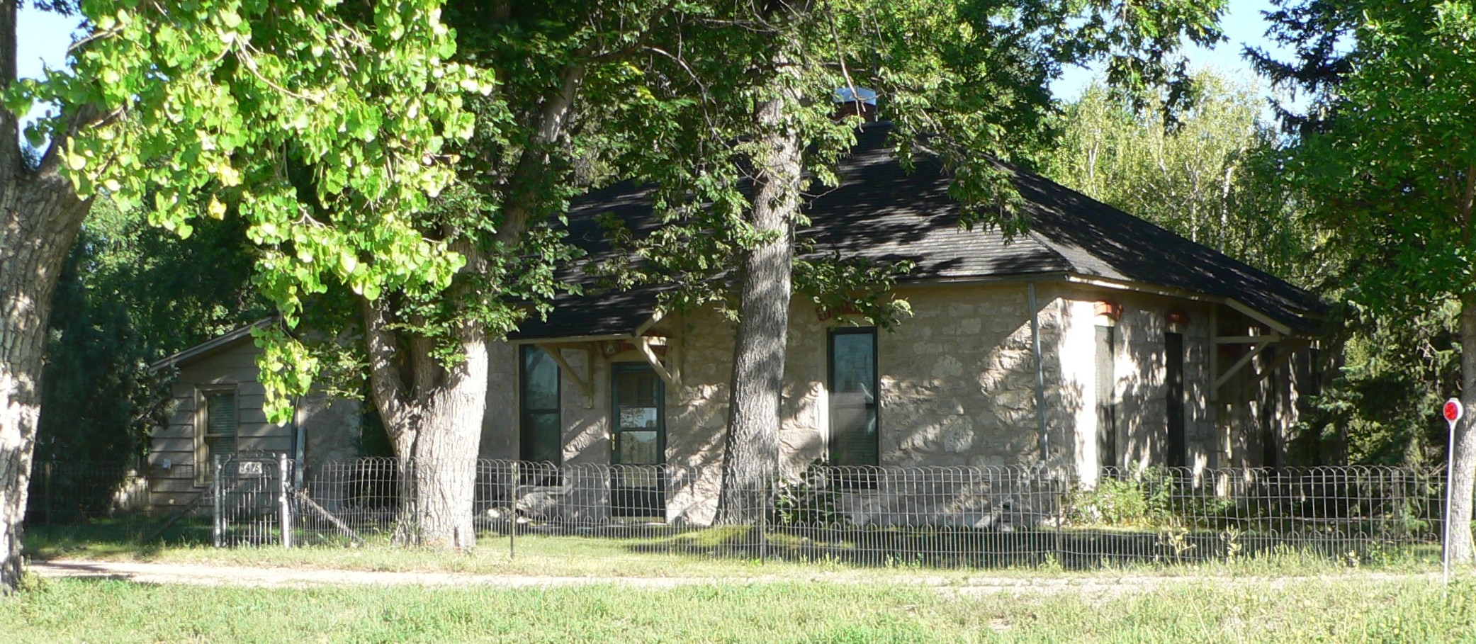 Stone farm house at Brookside Farm, also known as Gridley-Howe-Faden-Atkins Farmstead, located on west side of Nebraska Highway 71 just south of Lodgepole Creek; seen from the southeast. The house was built in 1899. The farm is listed in the National Register of Historic Places.